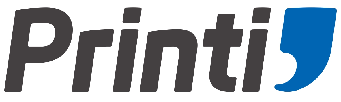 Logomarca da Printi.